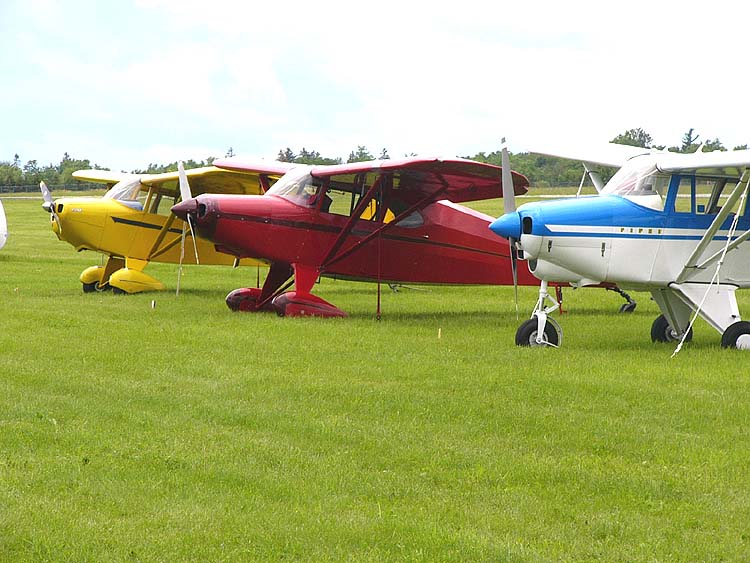 Pipers line-up at the annual convention of the Short Wing Piper Club. The aircraft are (l-r) a Piper PA-17 Vagabond, a Piper PA-16 Clipper and a Piper PA-22-150 Tri-Pacer I took this photo at the Short Wing Piper Club annual convention on 06 July 2006 at the airport in Kingston, Ontario.